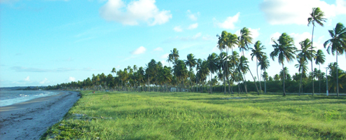 Pitimbue Beach